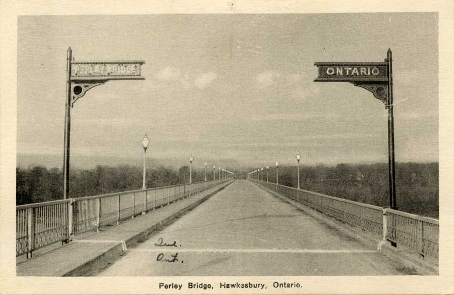 Perley Bridge between over the Ottawa River between Grenville, Quebec and Hawkesbury, Ontario